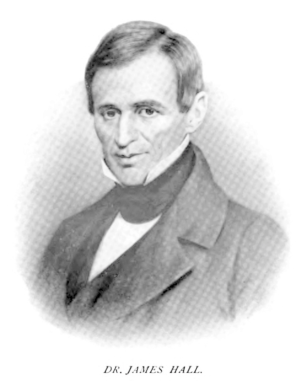 Photograph “Dr. James Hull”. Illustration from Europe in Africa in the nineteenth century by Latimer, Elizabeth Wormeley, 1822-1904.